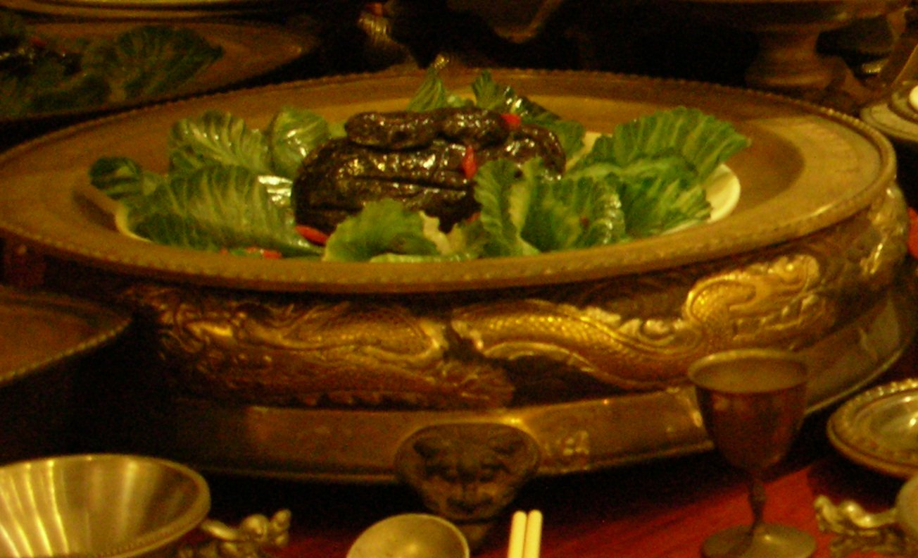 The Ape's lips in the Manchu Han Imperial Feast, simulated in the Tao Heung Museum of Food Culture, Fo Tan, Hong Kong